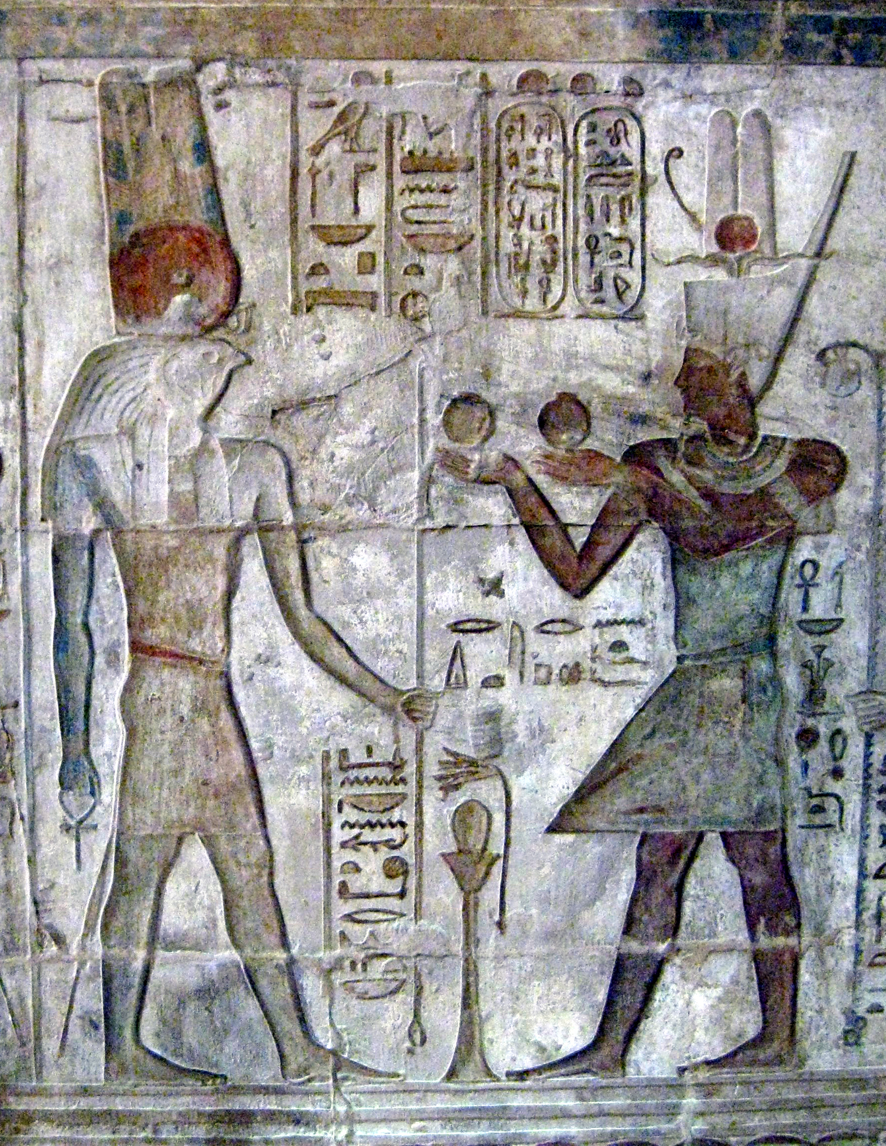 Menthu and Ptolemy IV. The Place of Truth, Deir el Medina.